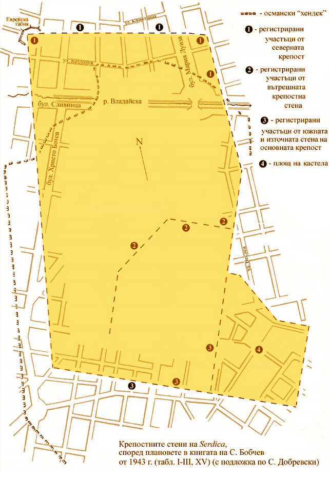 Serdika fortress